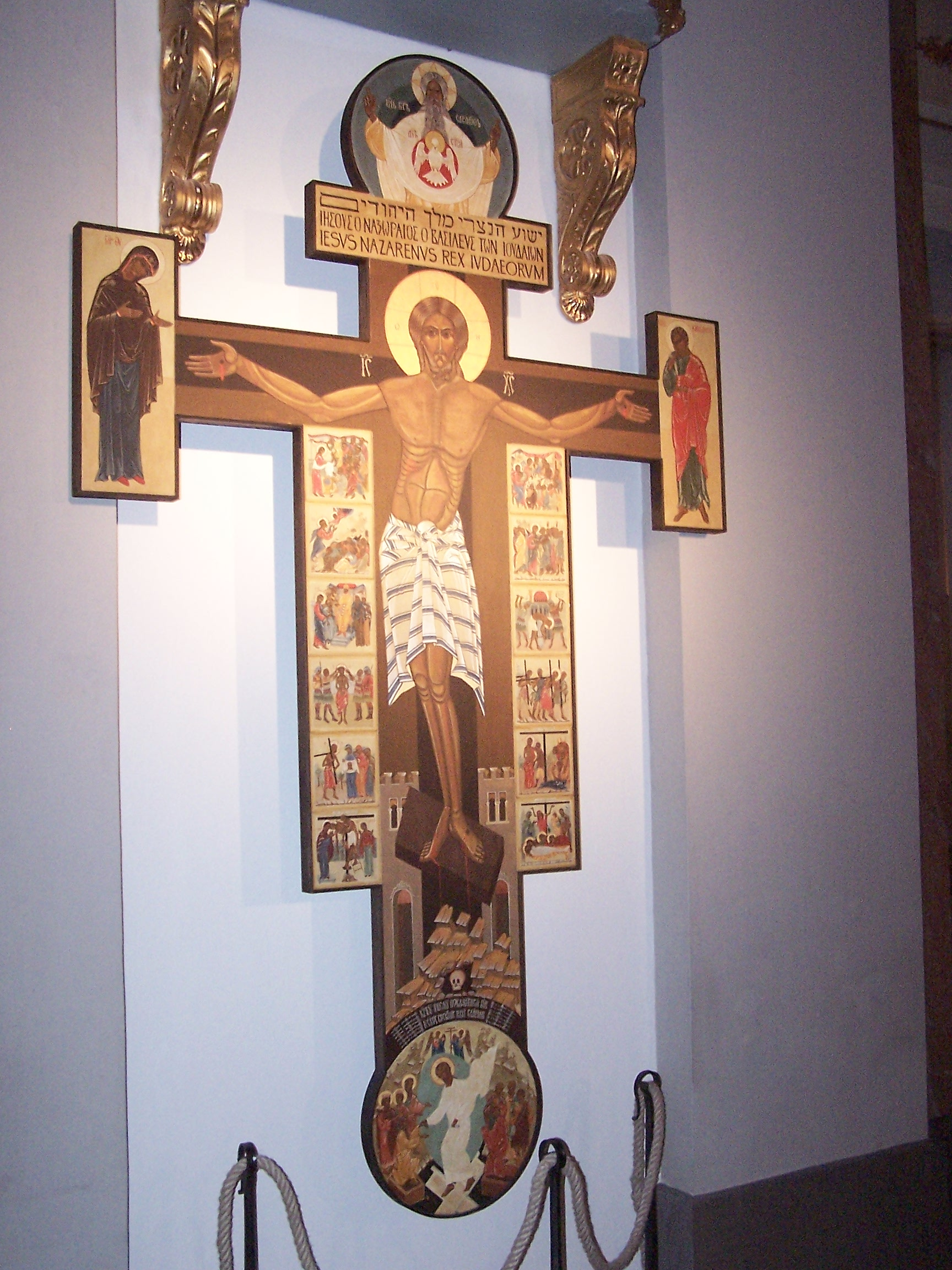 Crucifix in the cathedral of Härnösand, Sweden